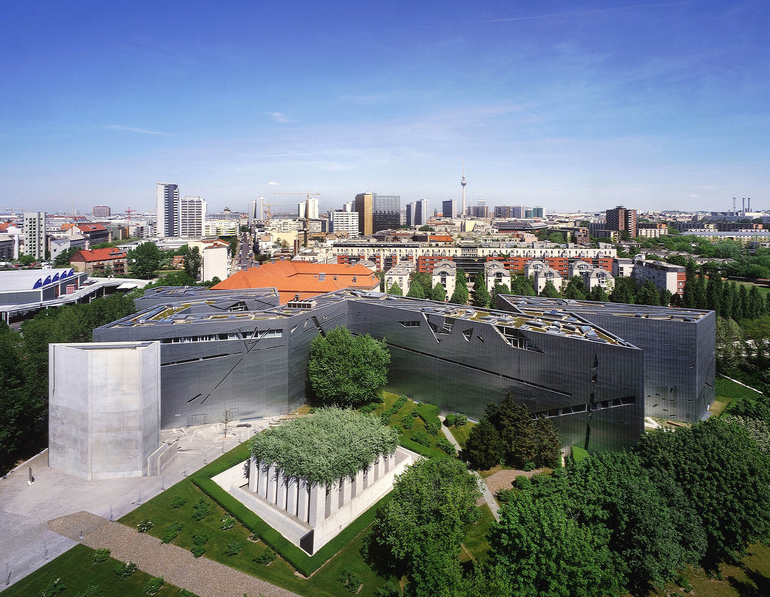 The Jewish Museum Berlin, designed by architect Daniel Libeskind.